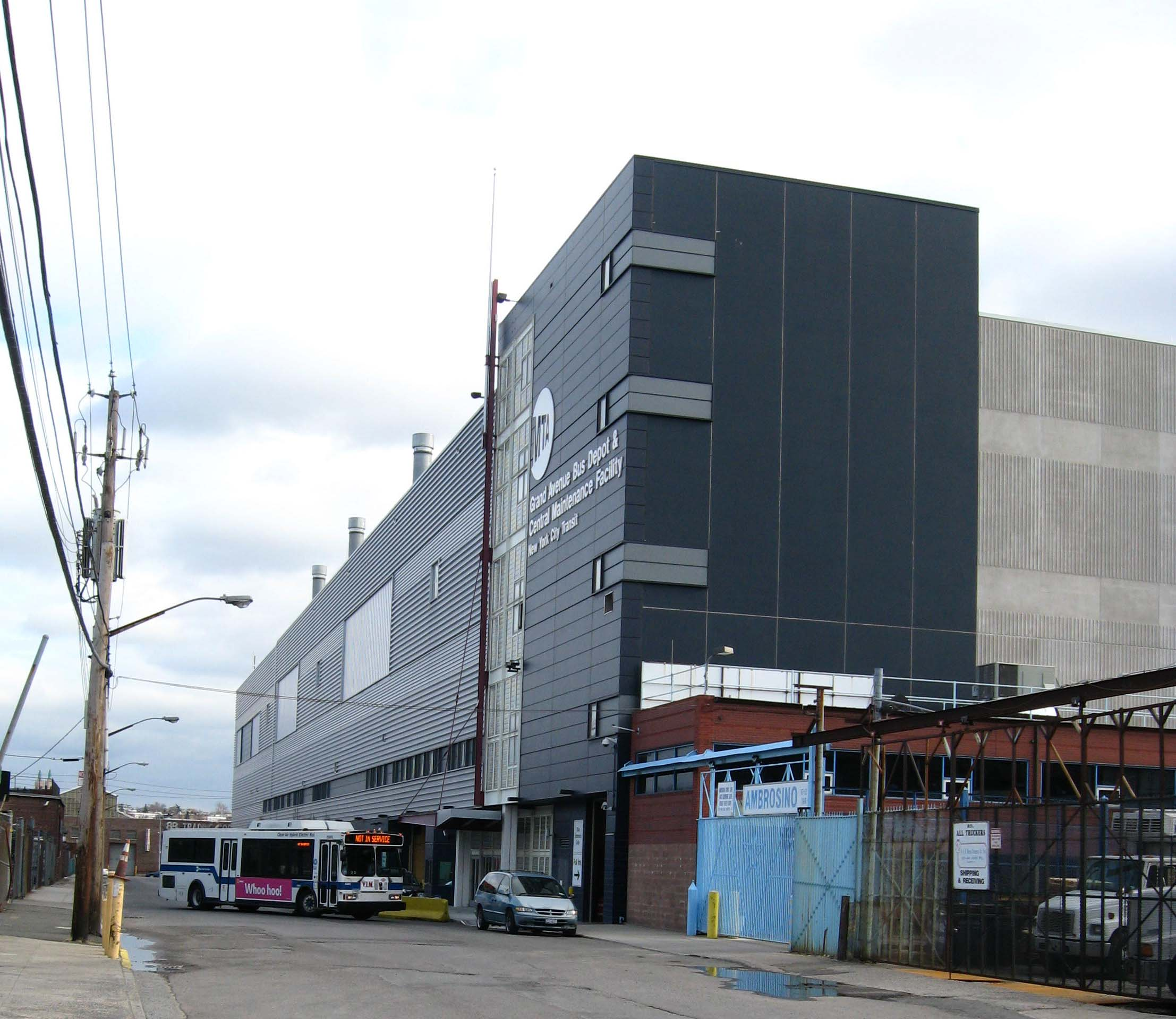 Looking south along 49th Place at the New York City Transit Authority's Grand Avenue Depot on a cloudy afternoon in early spring. See File:Grand Av Bus Depot jeh.JPG for the other side, a year later.